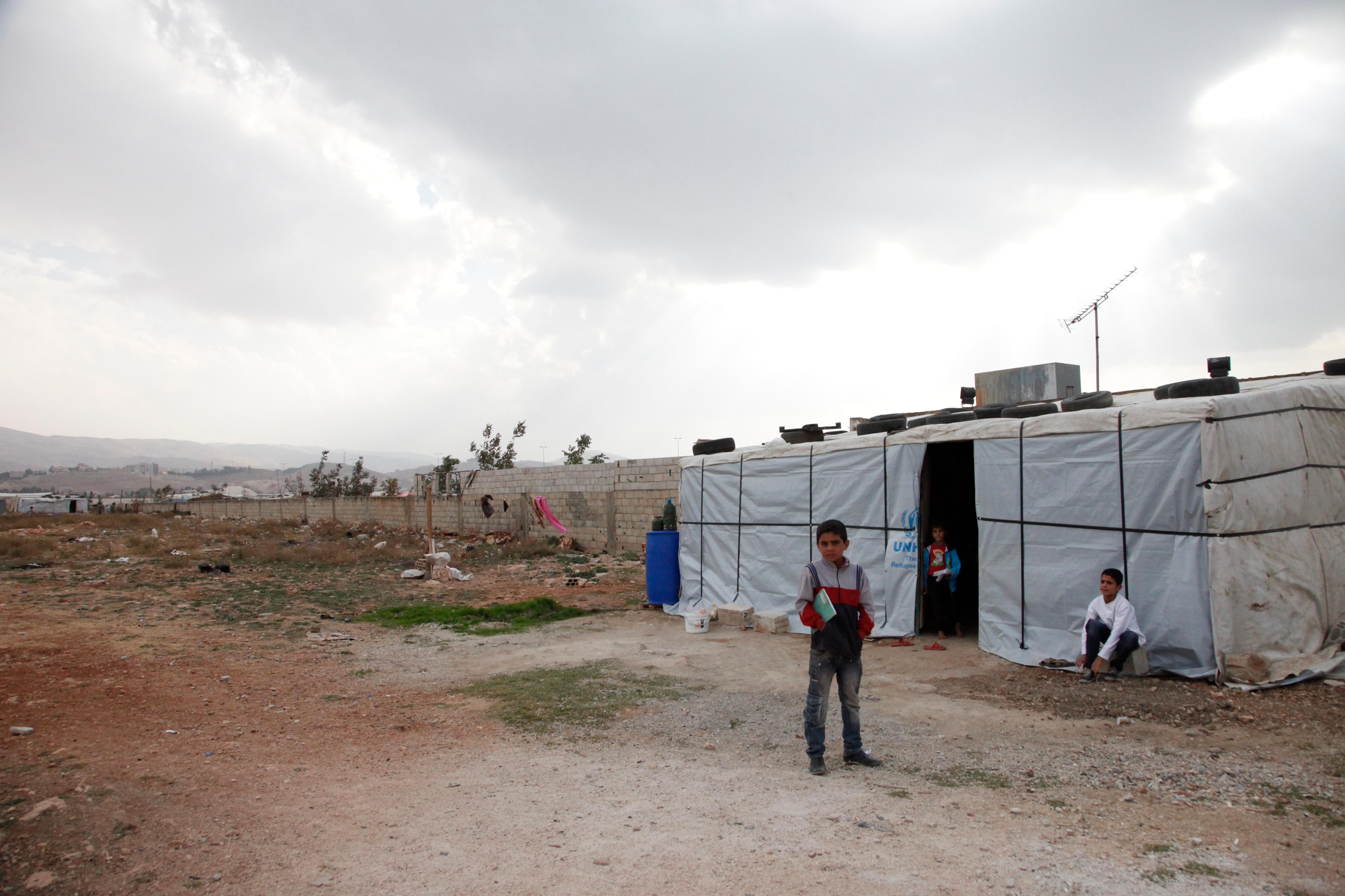 Syrian refugee children outside their temporary home, in Lebanon's Bekaa Valley. The 'home' is just a timber frame covered by plastic sheeting, and will offer little protection from the coming winter, when deep snow frequently falls here. The UK will provide winter tents, warm clothing and heaters as part of an allocation of nearly £90 million to help hundreds of thousands of Syrians, especially children, cope with the onset of winter. For full details on how the UK is helping people affected by the conflict in Syria, please Picture: Russell Watkins/Department for International Development